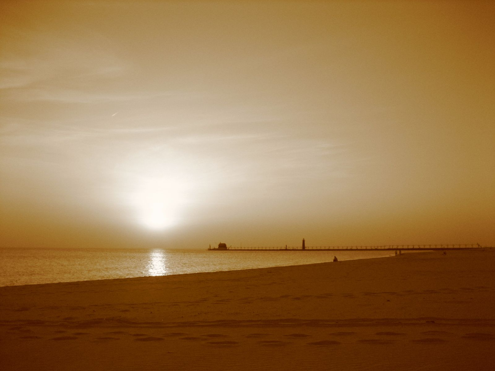 Beach at the State Park in Grand Haven, MI